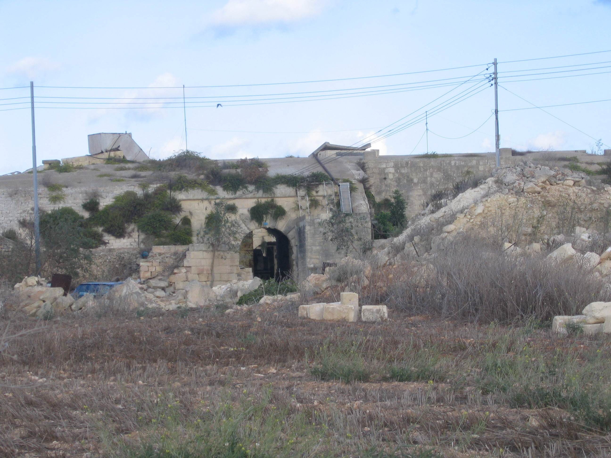 Main gate, Fort Leonardo, Malta. Copyright 2005 H.J Moyes